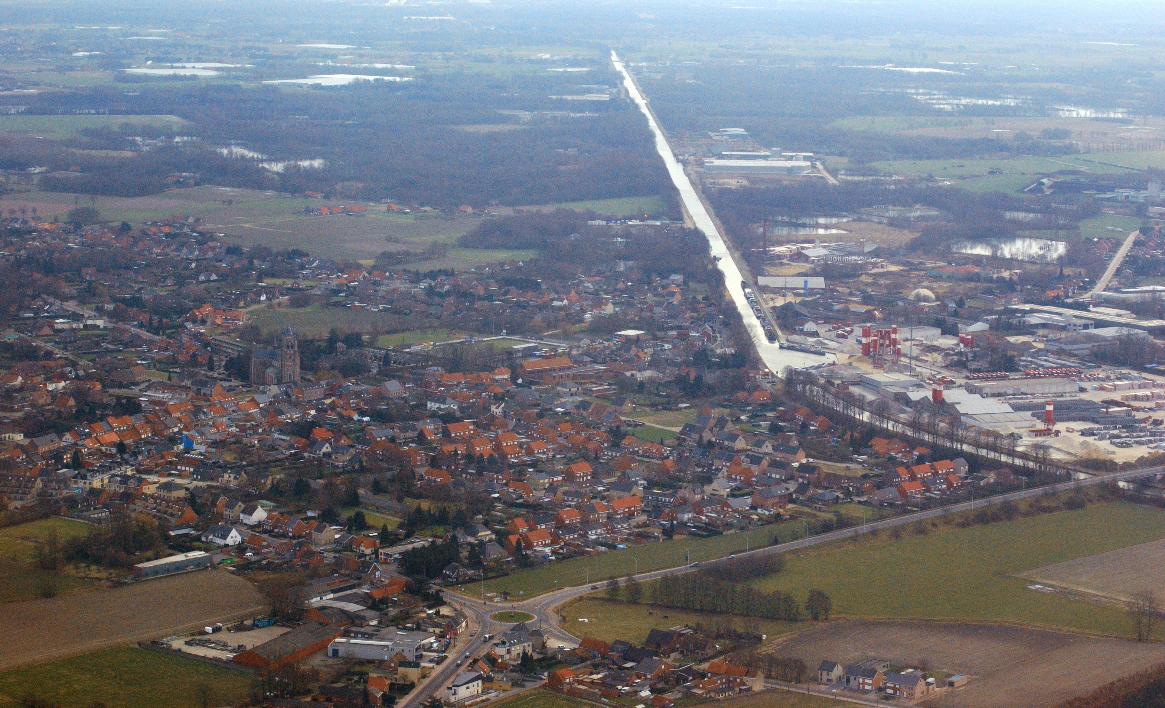 Aerial view from the Northwest towards the village of Sint-Lenaarts, commune of Brecht, Belgium. Boats are waiting along the Dessel-Turnhout-Schoten canal. Nikon D60 f=55mm f/14 at 1/250s ISO 800. Post-process using Nikon ViewNX 1.0.3 and Adobe Photoshop 4.0.